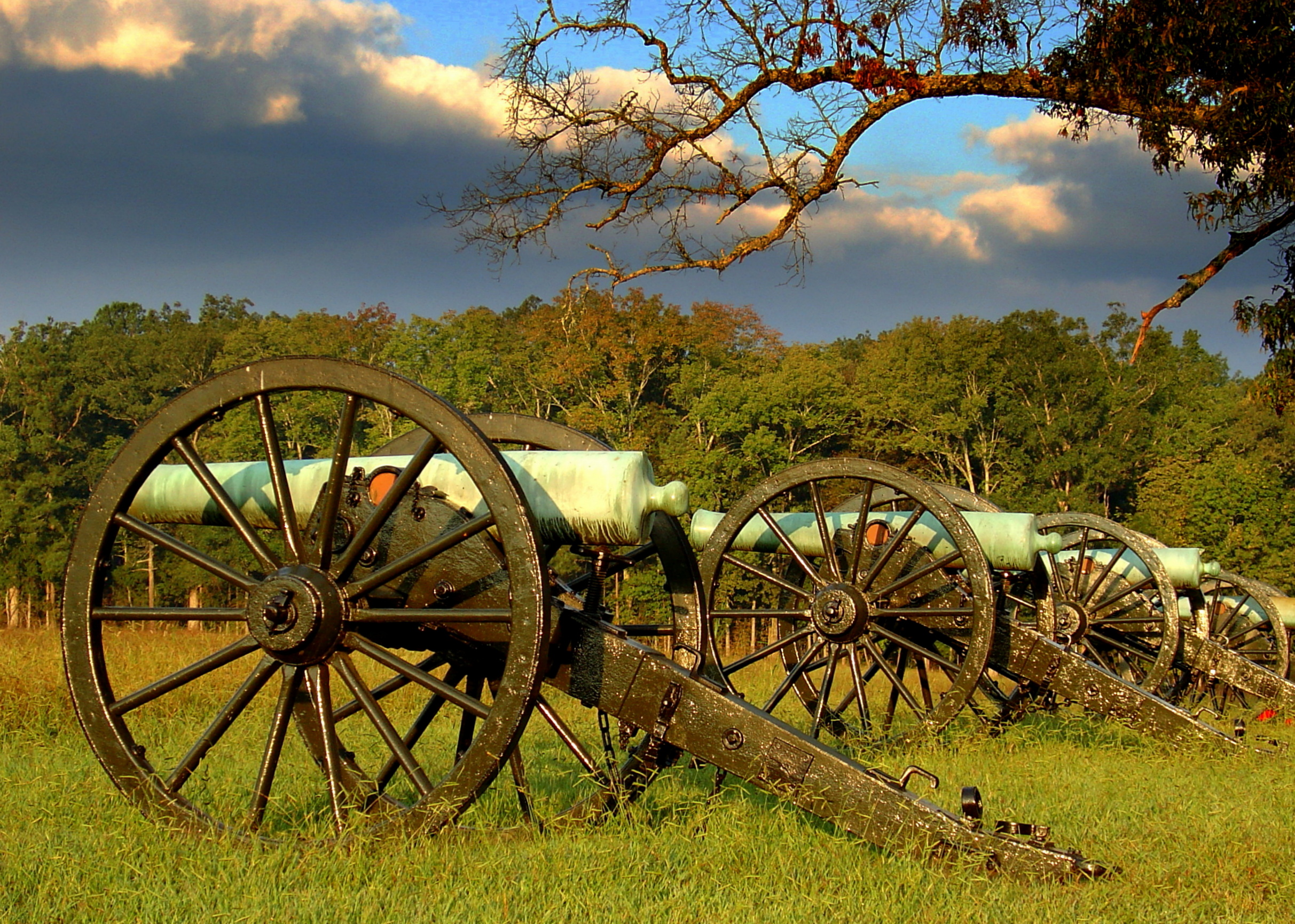 Blooms Louisiana Battery at Chickamauga and Chattanooga National Military Park